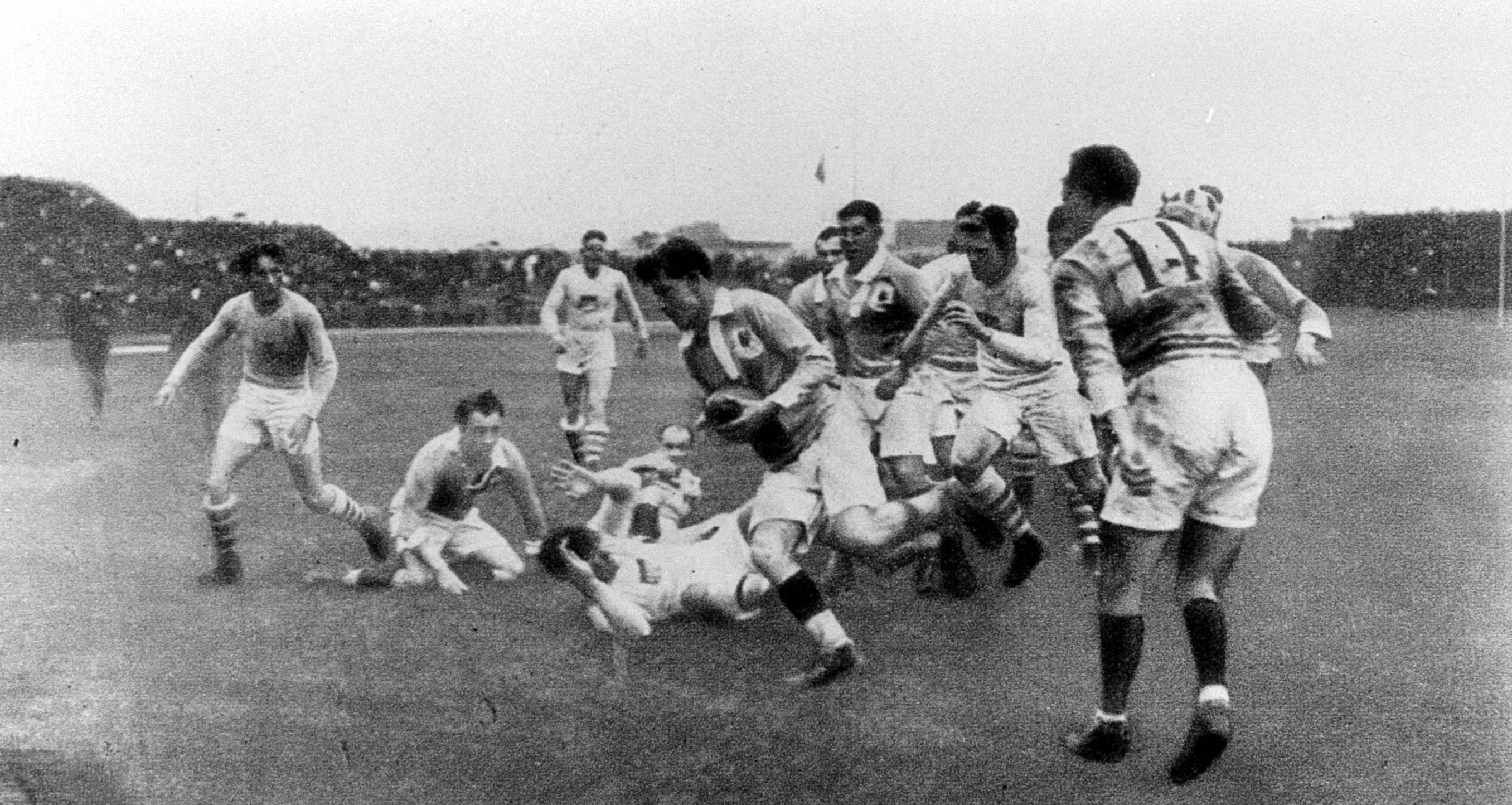 Scene of the match